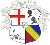 Emblem of AV Merzhausia(fraternity for women) in Freiburg, Germany